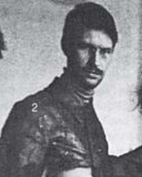 Ivan Tovstukha in 1924.